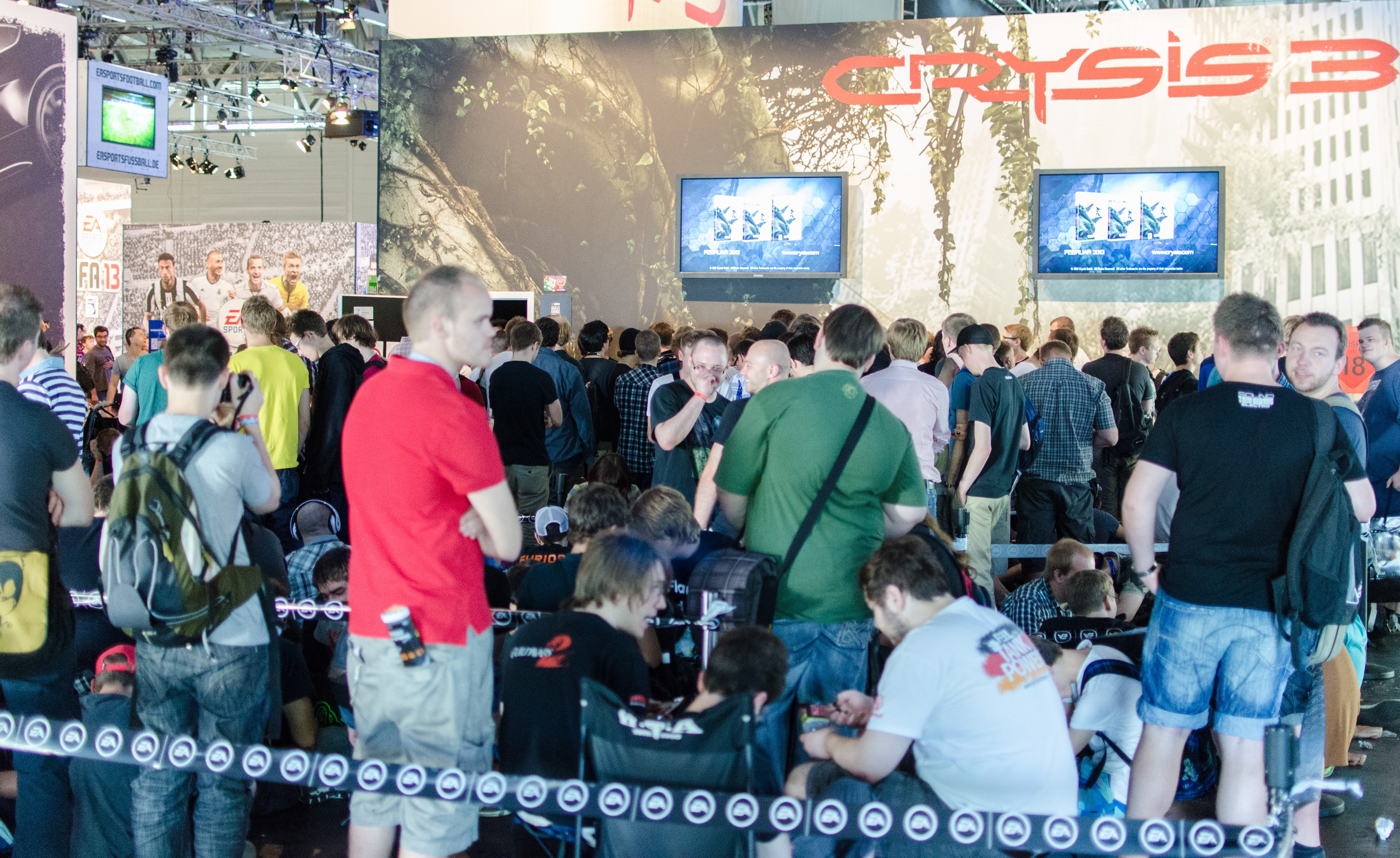 Crysis 3 at Gamescom in Cologne, Germany.